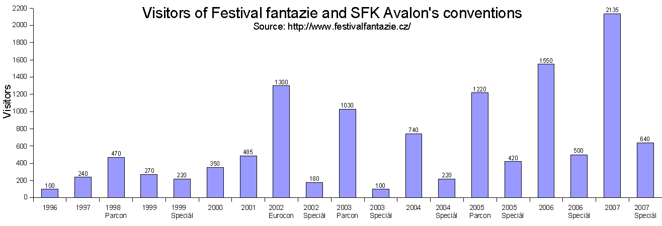 Graph of number of visitors of Festival fantazie and other SFK Avalon's conventions - English description